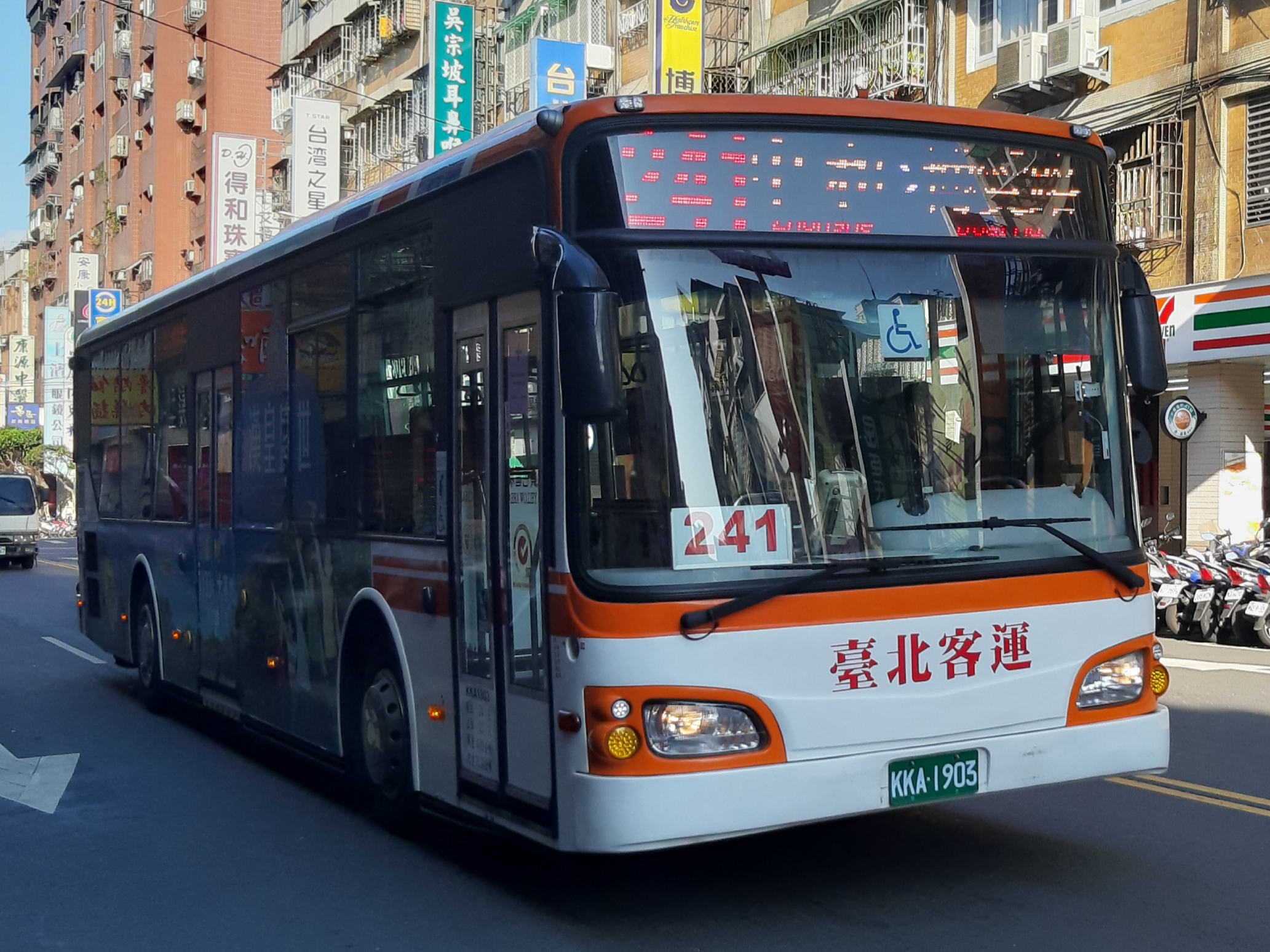 是哪里昂然